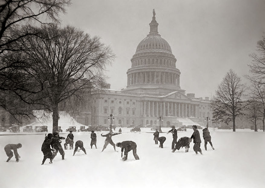 United States Senate Pages having a snowball fight in front of the US Capitol in Washington, D.C.